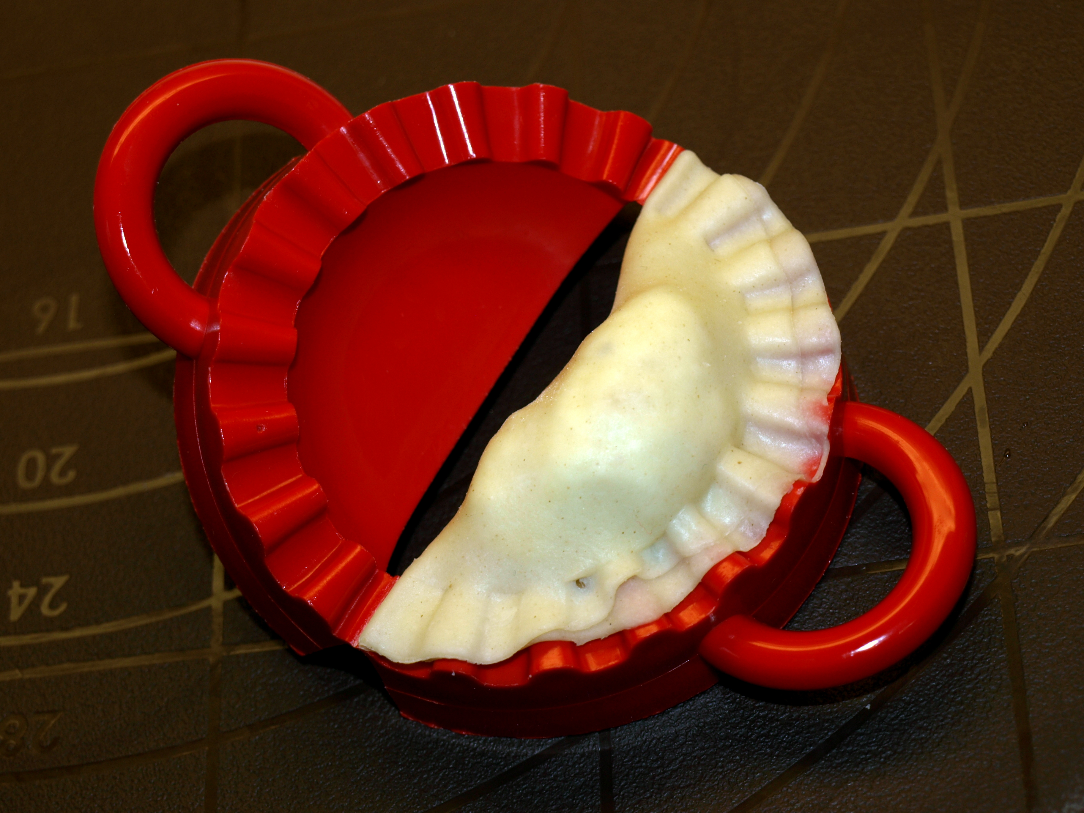 A pierogi sealed in a crimping tool.